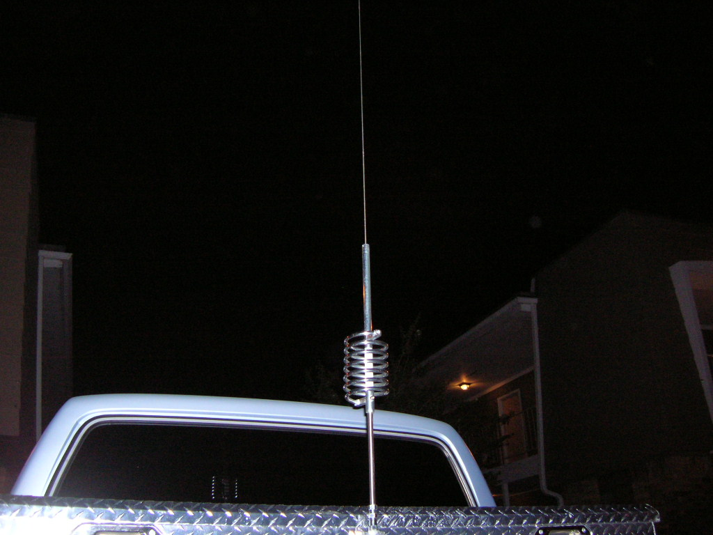 CB antenna. It is my own work. I release into public domain.